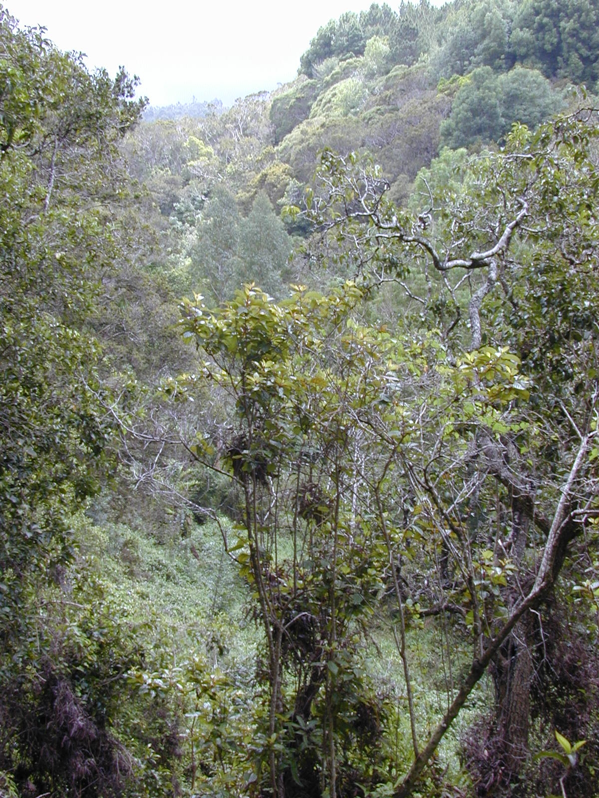 Charpentiera obovata (habit). Location: Maui, Makawao Forest Reserve